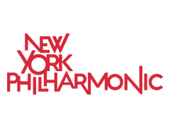 New York Philharmonic Logo